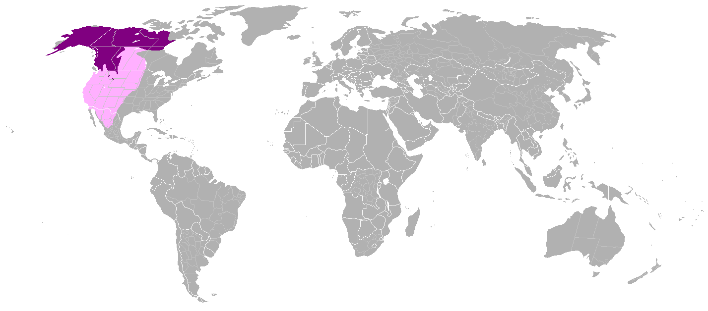 Distribution of Ursus arctos horribilis (Grizzly bear). Current distribution in purple, historic distribution in pink.